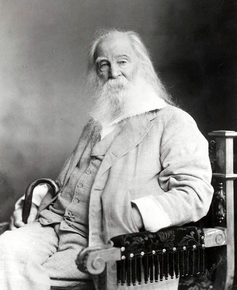 Photo of American poet Walt Whitman. Original caption reads: "Whitman at seventy." Scanned from A Life of Walt Whitman by Henry Bryan Binns. Published by Methuen & Co., 1905.